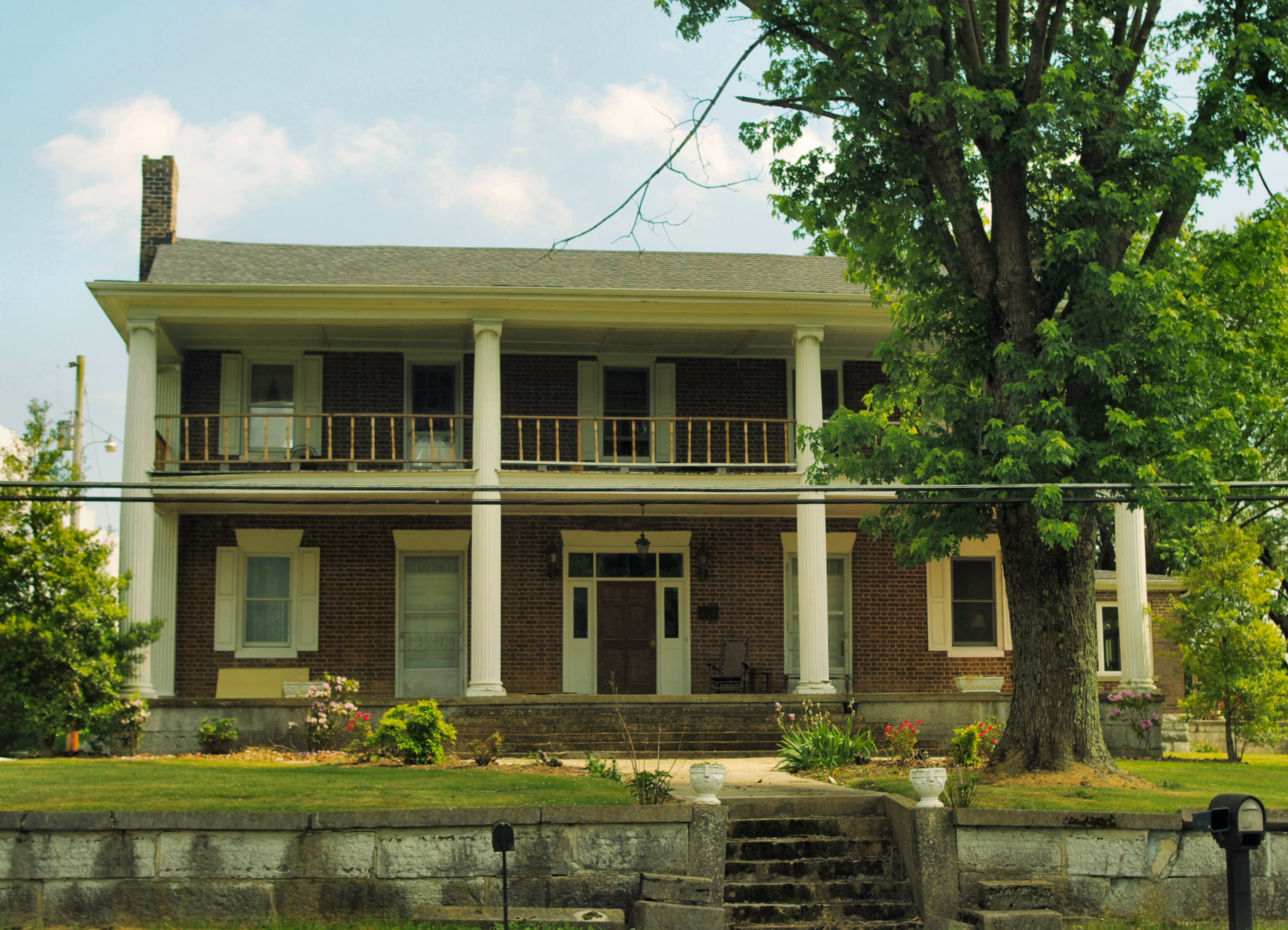 The Kincaid-Howard House in Fincastle, Tennessee, United States. Built in 1845 by John Kincaid II, this house is now listed on the National Register of Historic Places.